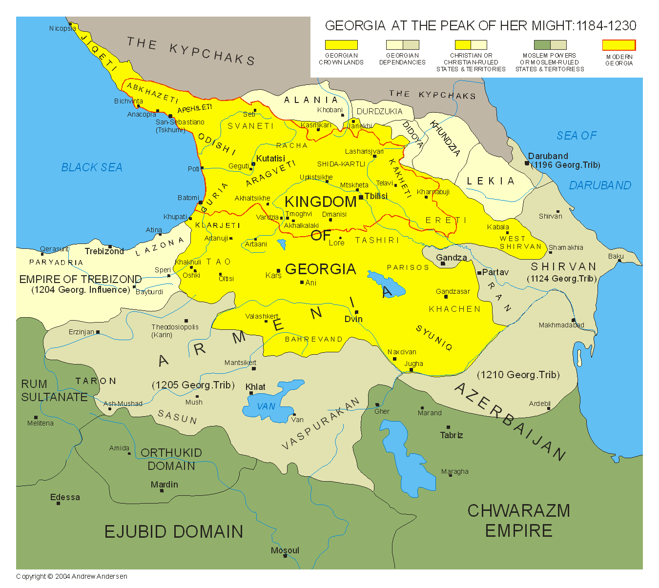 Map of the Kingdom of Tamar of Georgia Русский